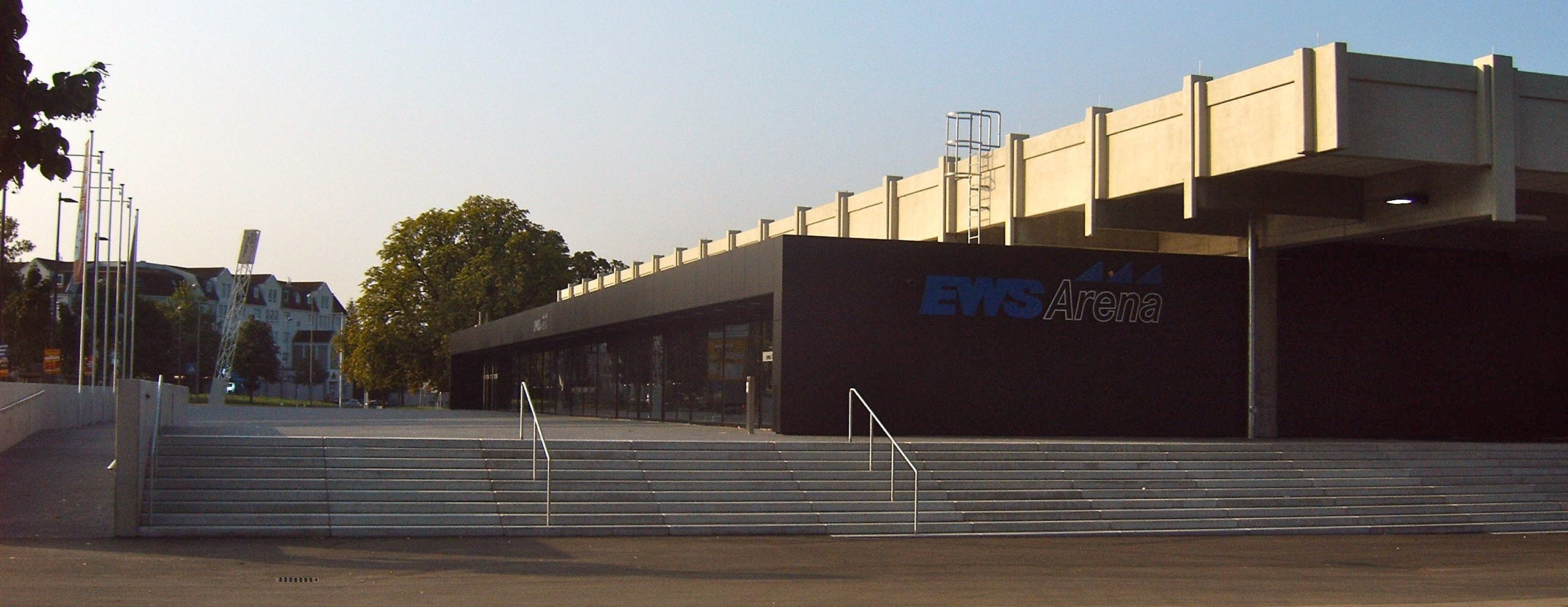 Entrance to the EWS-Arena, Göppingen, Germany